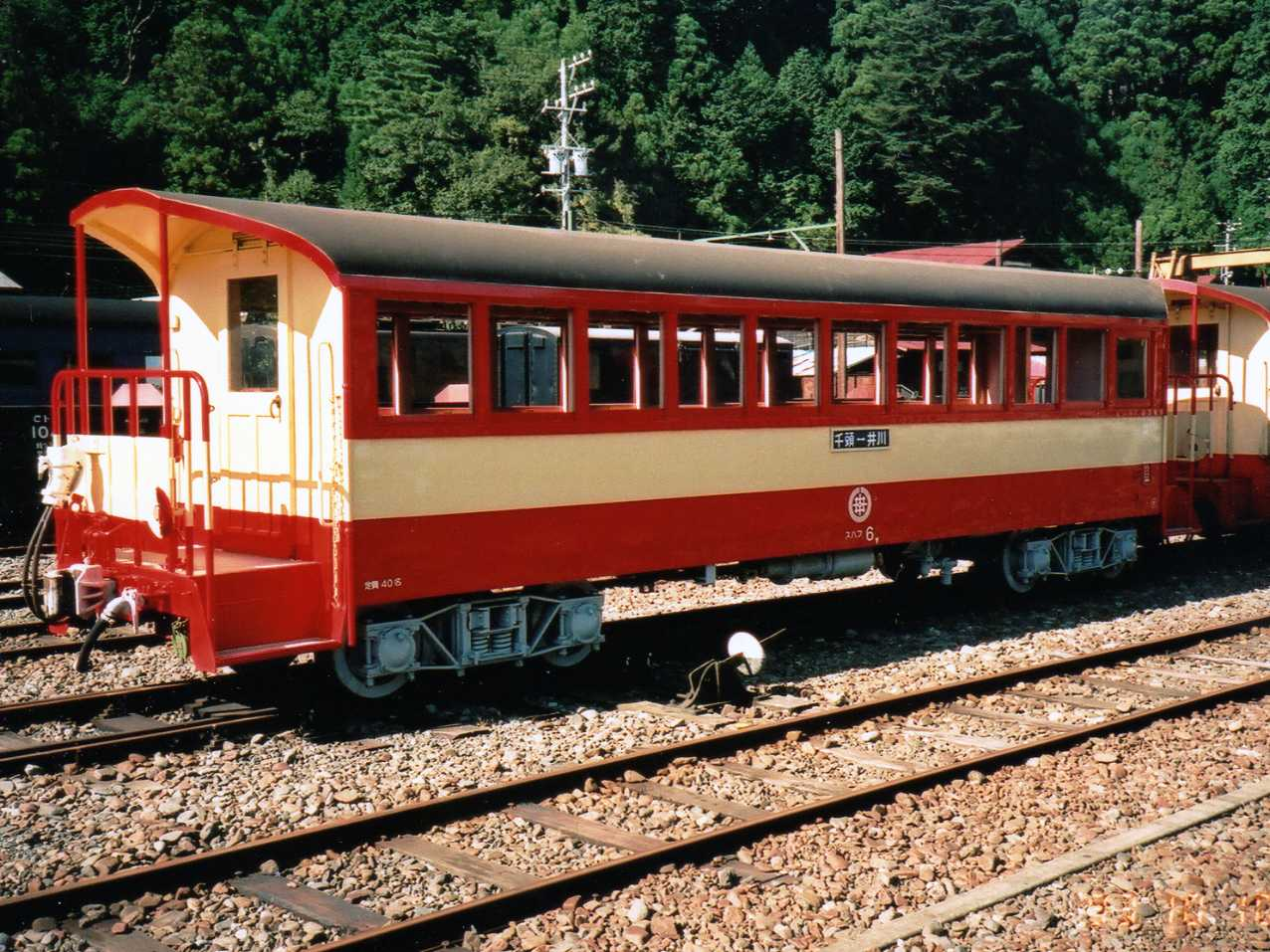 Oigawa Railway type Surofu6. at Senzu Sta. 1993.10.10 Photo by Cassiopeia_sweet.